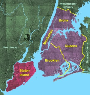 Staten Island, shown with the Five Boroughs © 2004 Matthew Trump